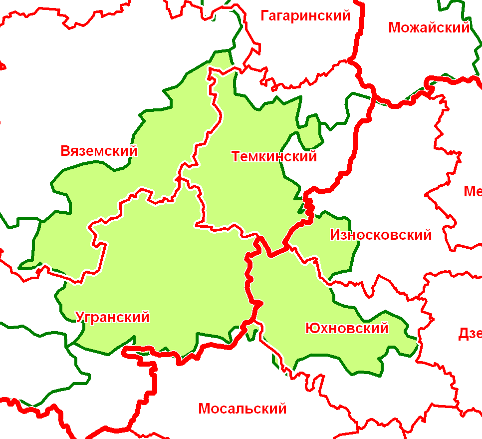 Юхновский уезд Смоленской губернии в современной сетке районов